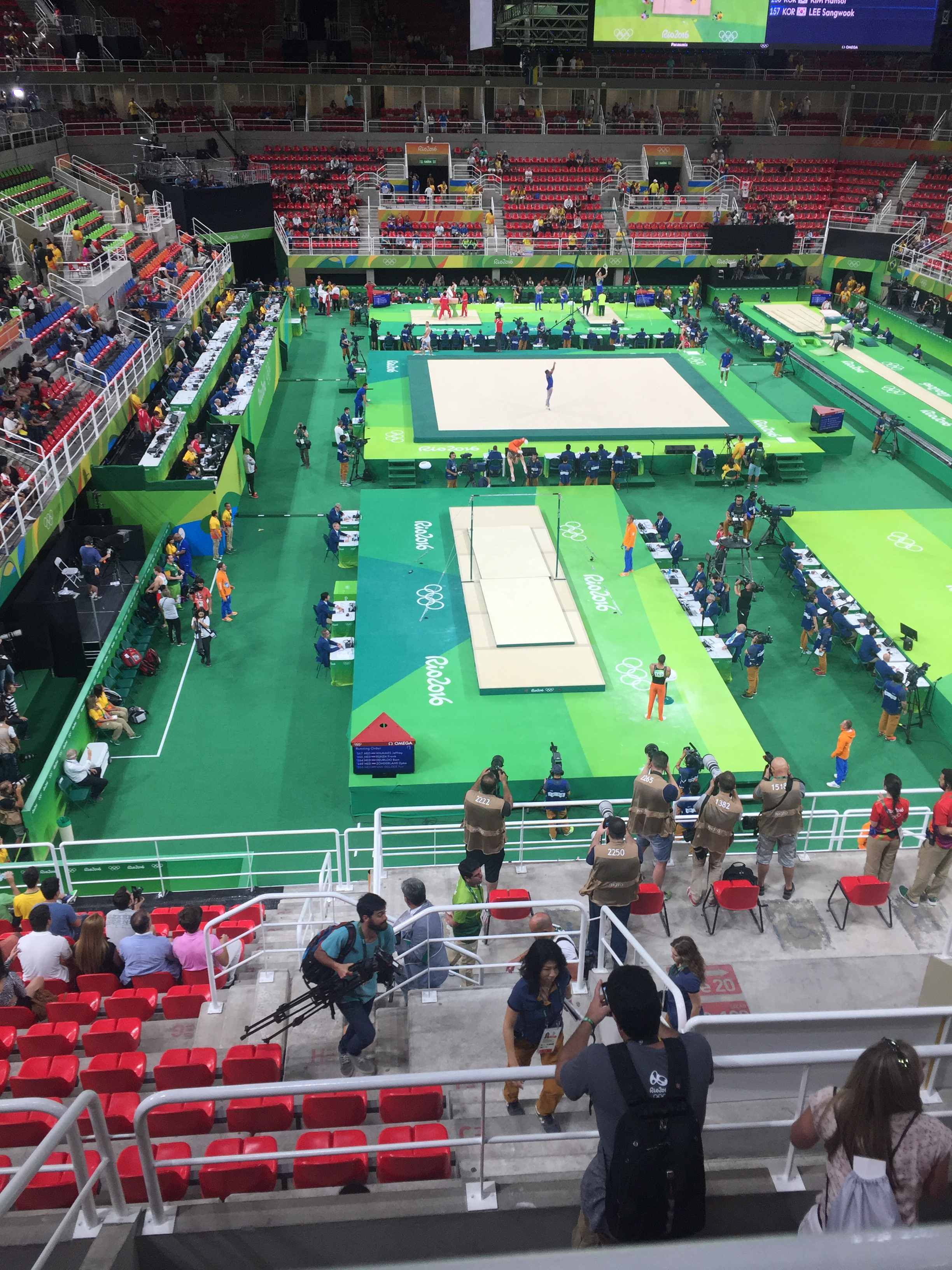 Rio 2016 Olympic artistic gymnastics qualification men